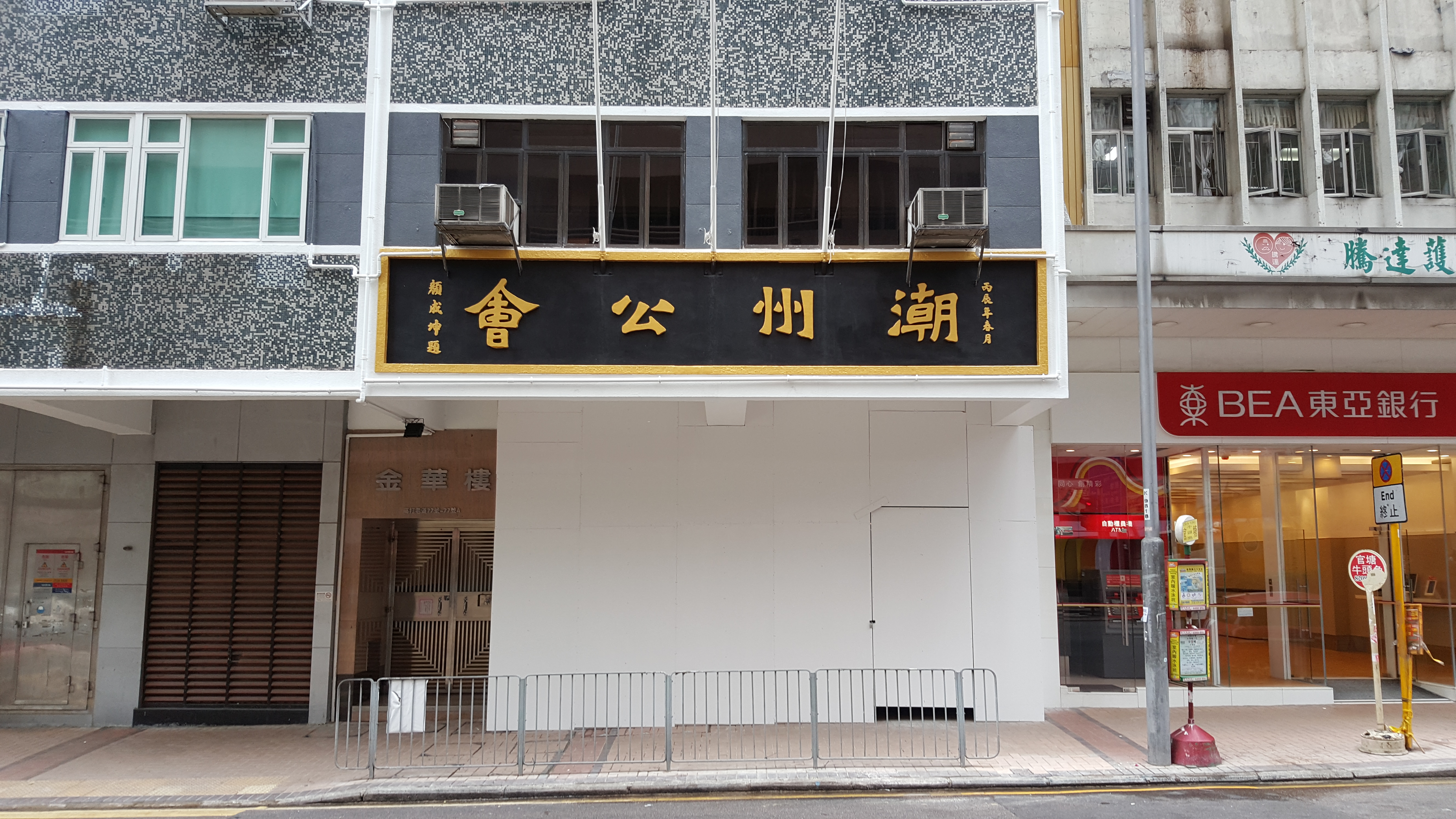 Hong Kong & Kowloon Chiu Chow Public Association at Kam Wah Hse, 77 to 77A Waterloo Road, Ho Man Tin, Kowloon, Hong Kong. The plaque of the Association seen in the image was inscribed by Mr Ngan Shing-kwan, C.B.E., J.P., in 1976. 中文（香港）: 香港九龍潮州公會，位於香港九龍何文田窩打老道77號至77A金華樓。圖中所見的公會牌匾是由顏成坤先生，C.B.E.，J.P.於1976年題字。